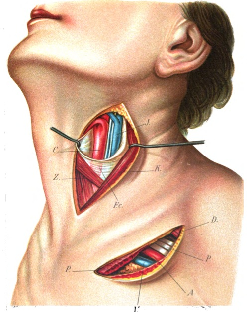 External carotid artery showing the location of ligation of the superior thyroid artery.